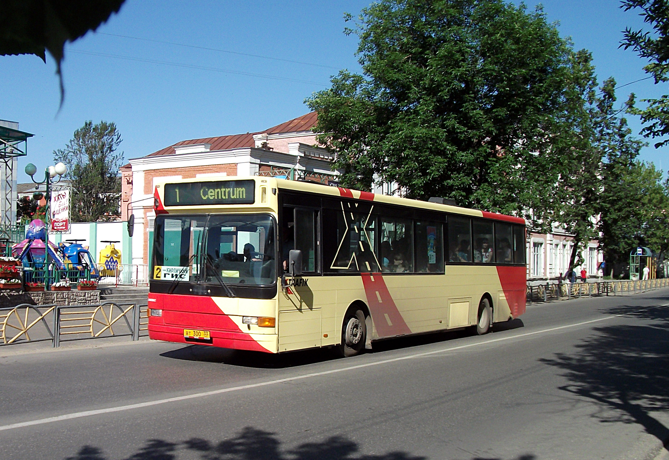 Säffle 2000NL bus (reg. ВТ 300 33) with Volvo chassis in Gus-Khrustalny, Vladimir Oblast, Russia.